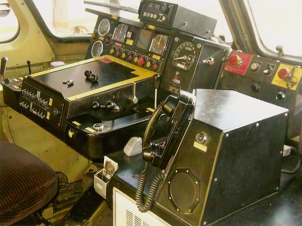 French RTG locomotive driving cabin.